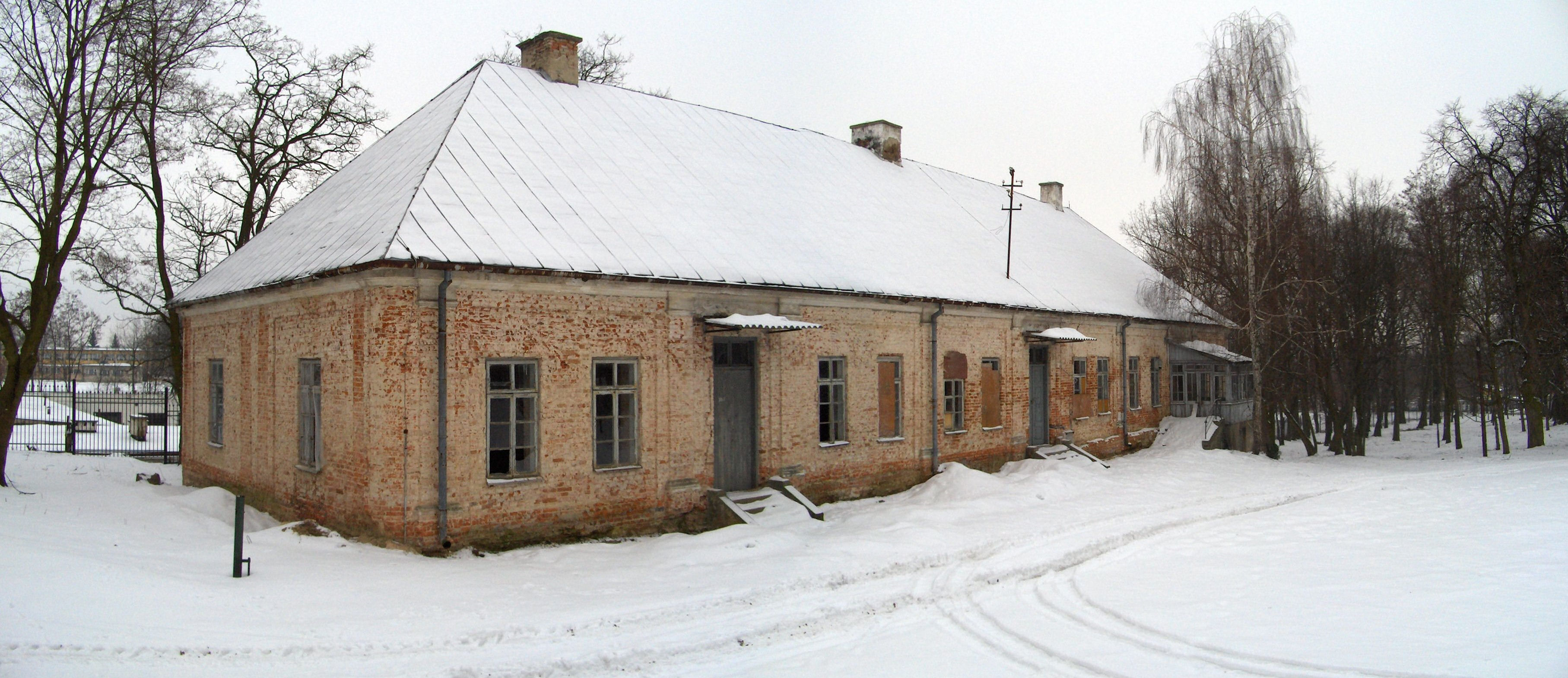 Palace of Ordęgów in Żelechów